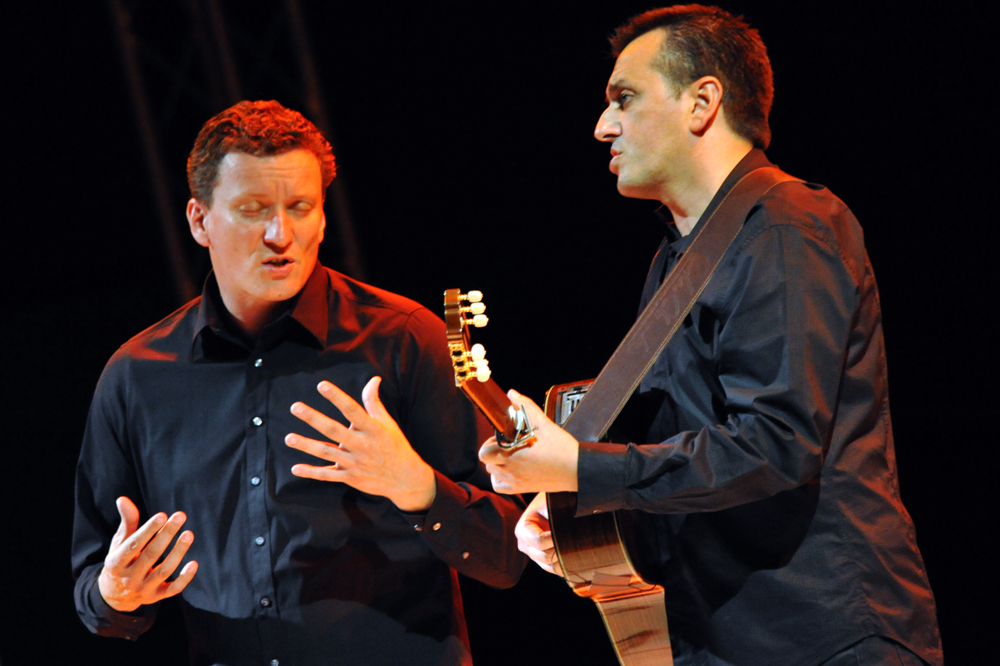 Vocal group Barbara Furtuna from island Corse performing at Warszawa Cross Culture Festival in September 2011.